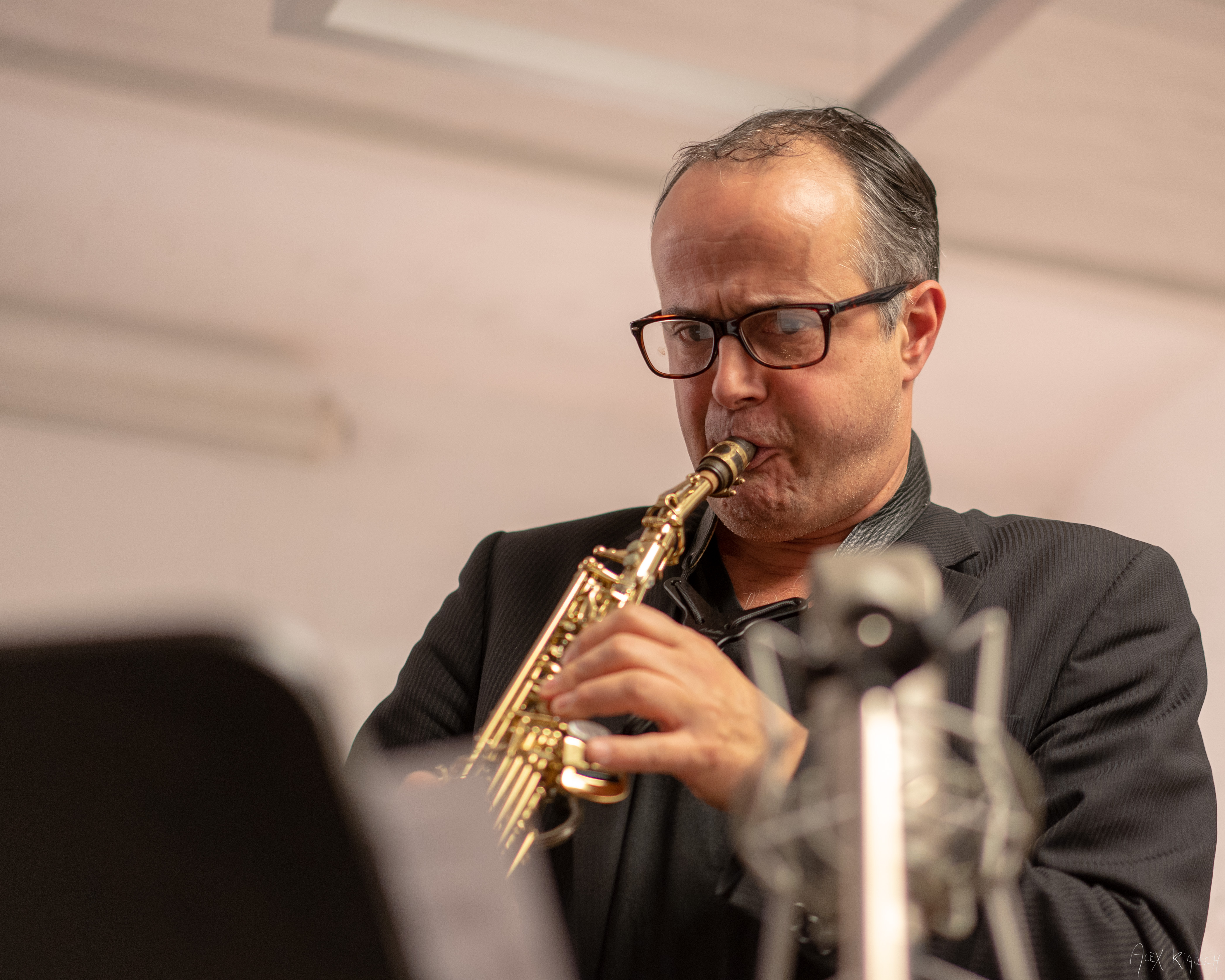 Gabriel Coburger plays a concert at Alte Druckerei, Ottensen 2019. He plays an alto-saxophone.